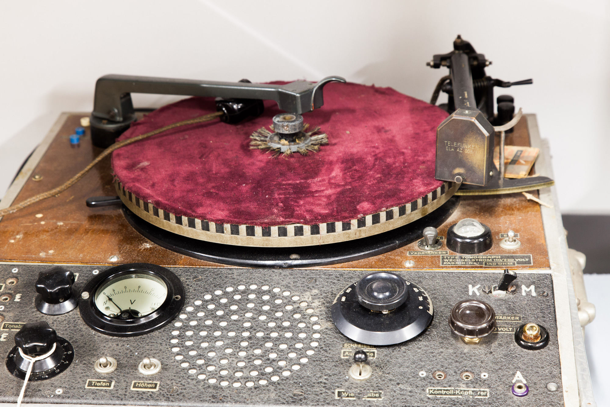 Record player and cutter by Telefunken called "Tonograph". This machine was used in professional studio environments. Production year unknown, probably around 1940. Museum für Kommunikation, Frankfurt, Germany. Photo by Maximilian Schönherr with help from Lioba Nägele.